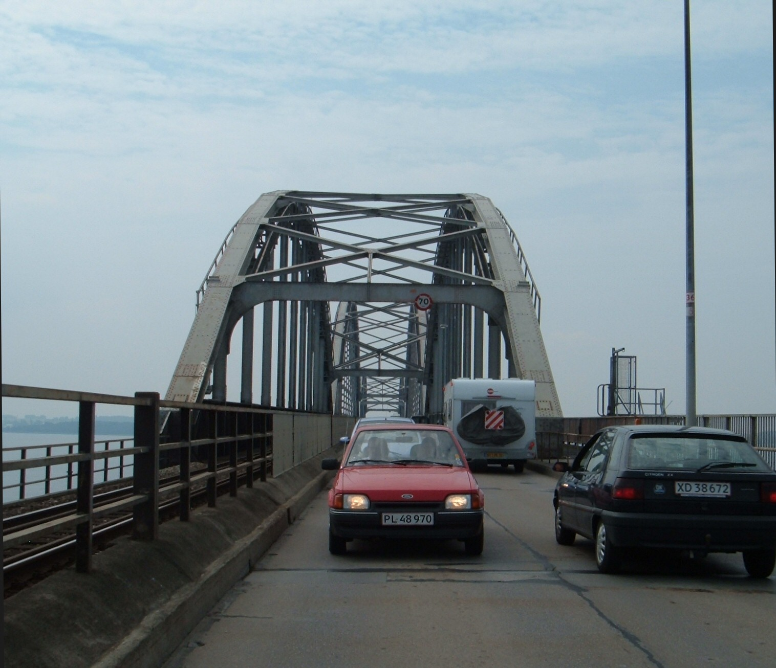 Storstrøm bridge connecting the island of Masnedø with the larger island of Falster in south east Denmark. From Masnedø, the Masnedsund bridge continues to Zealand.View of bridge deck showing two road lanes and one rail track. Taken by contributor, July 2006.